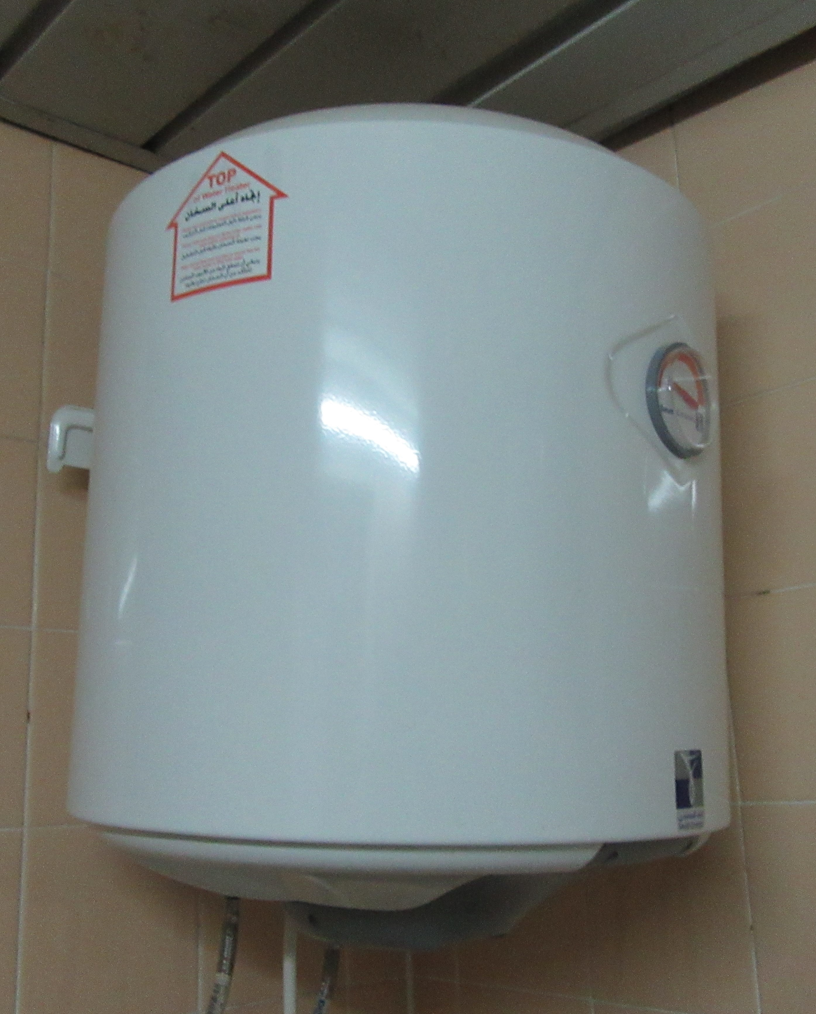 A small water heater in white color